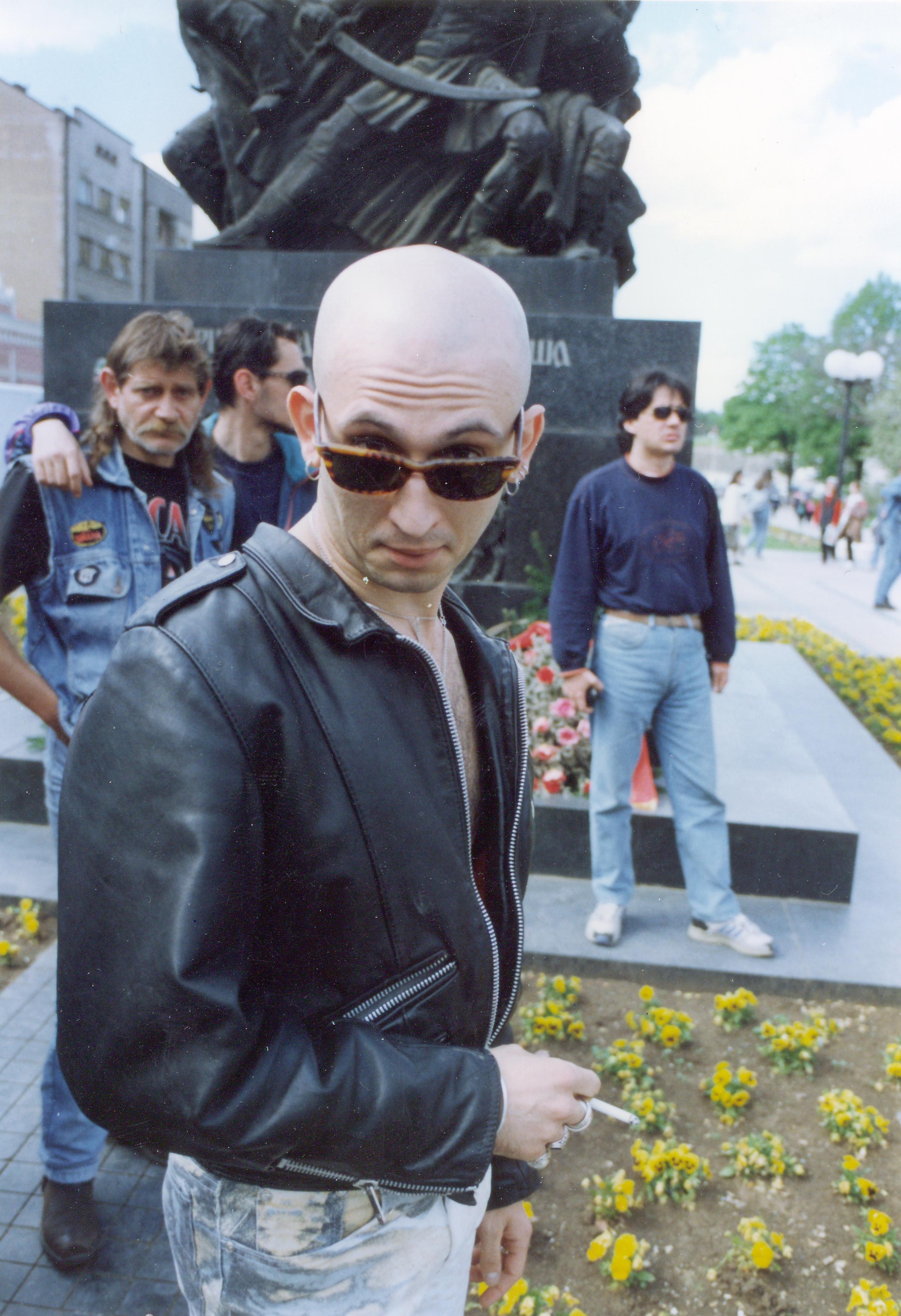 Serbian musician Nikola Kostić - Lee Man, in Niš in the late 90's